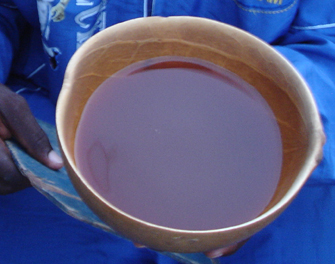 This photo is of a calabash of warm pito purchased from a pito bar in the town of Navrongo in Upper East Ghana.